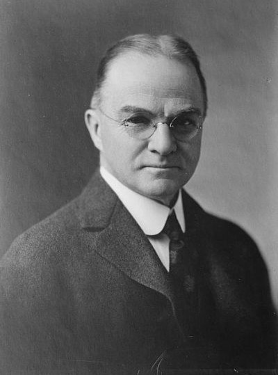 Franklin Swift Billings (1862–1935), an American politician from Vermont